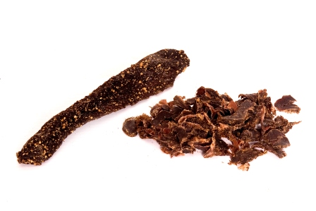 Dried Kudu meat is a traditional South African delicacy. This is an image of food from South Africa